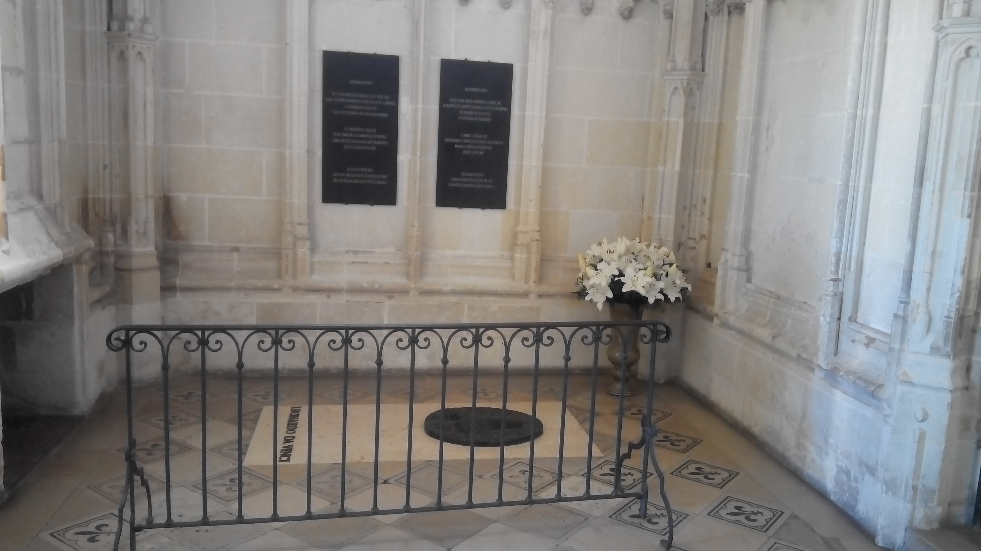 The tomb of Leonardo da Vinci in Amboise (France)